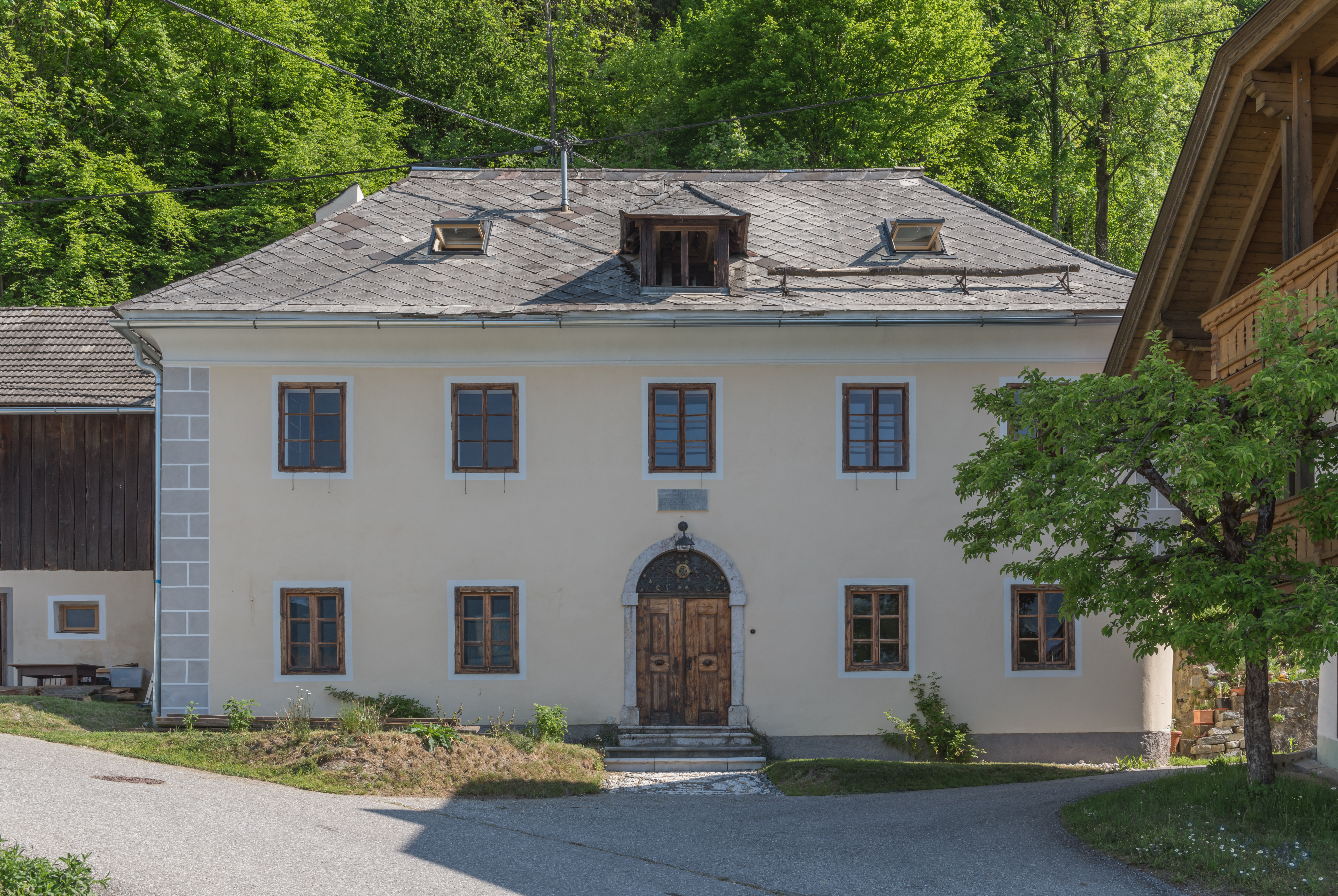 Former rectory from 1757 in Saak #49, market town Nötsch im Gailtal, district Villach Land, Carinthia, Austria, European Union